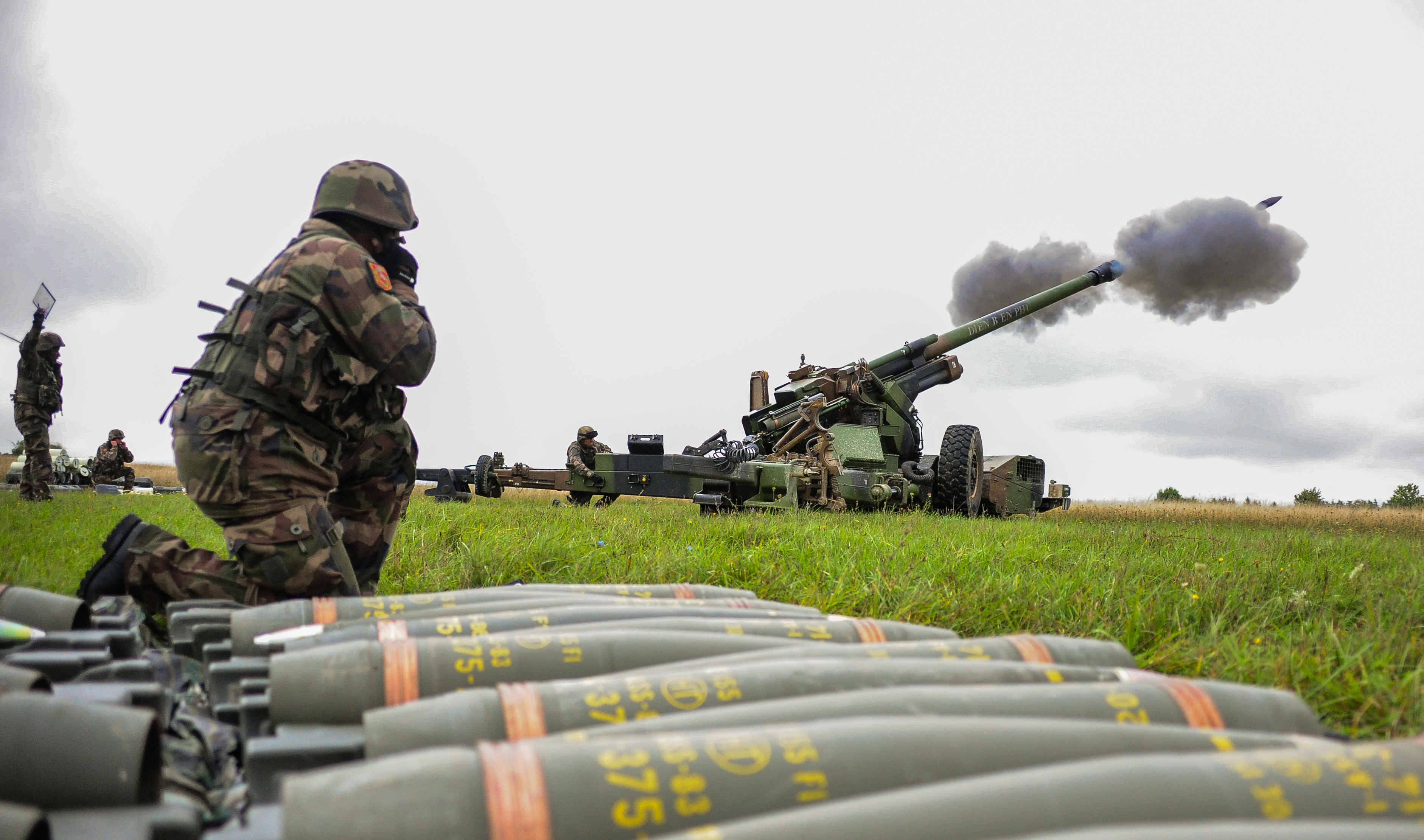 French soldiers of 3rd Marine Artillery Regiment fire a French TRF1 155 mm self-propelled howitzer as part of a live fire exercise during Combined Endeavor at the Joint Multinational Training Command's Grafenwoehr Training Area, Germany, Sept. 17, 2013. Combined Endeavor is an annual command, control, communications and computer systems (C4) exercise designed to prepare international forces for multinational operations in the European theater. (U.S. Army photo by Staff Sgt. Pablo Piedra/Released)